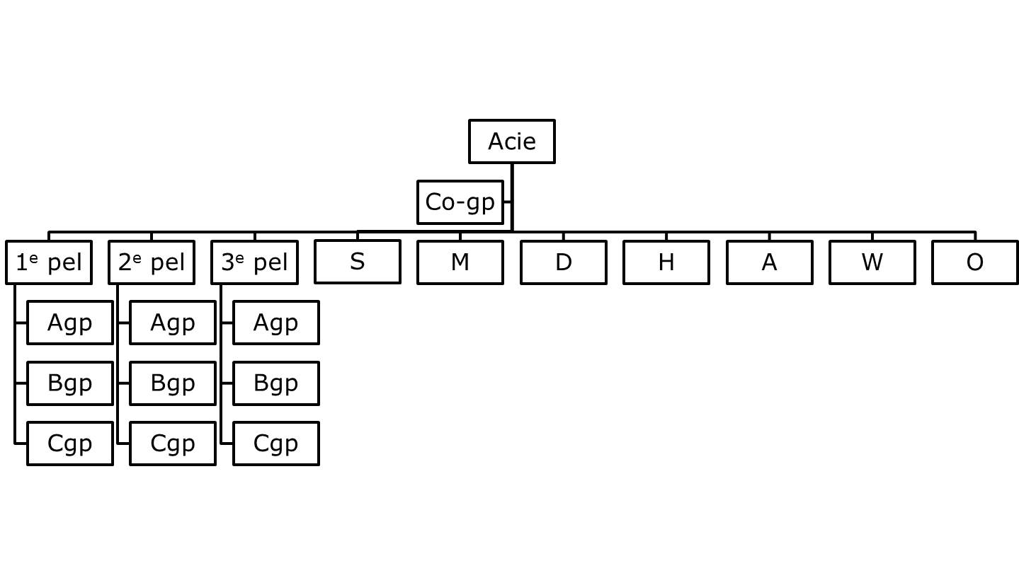 Organogram infanteriecompagnie